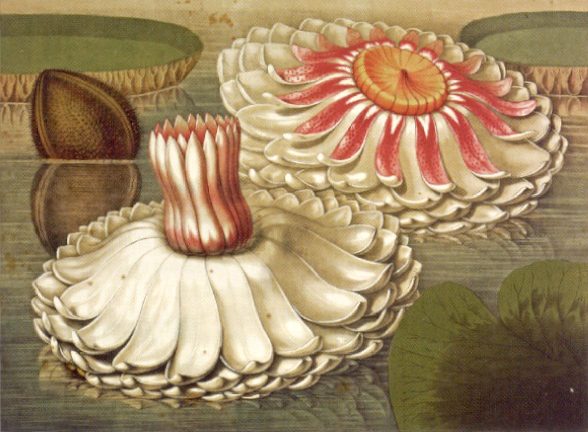 Lily in A Selection of Hexandrian Plants by Priscilla Susan Bury, 1831, Loy McCandless Marks Library